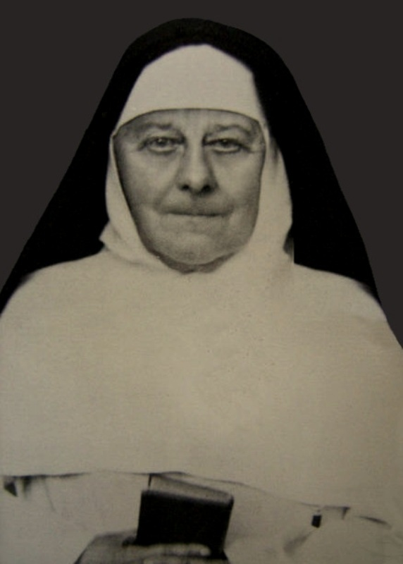 Portrait of Saint Mary Euphrasia Pelletier